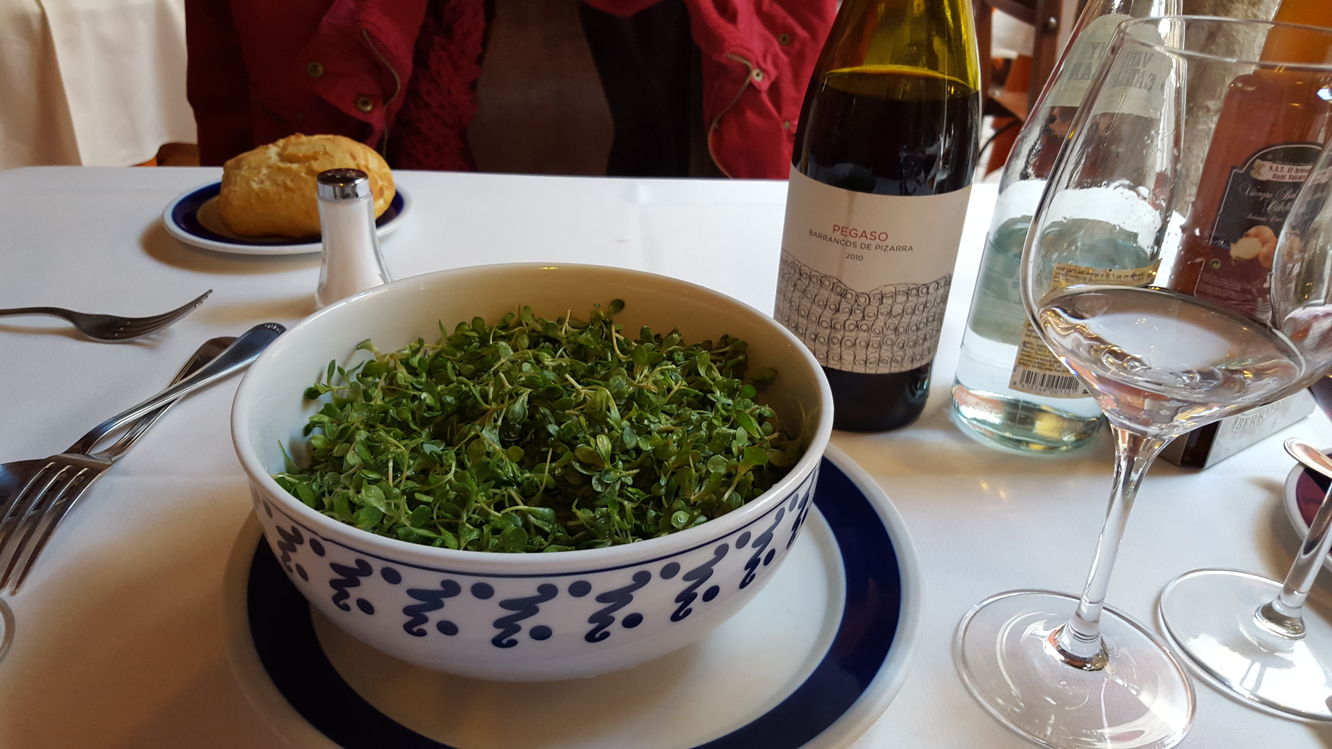 Boruja (Montia fontana) salad, Ávila, Spain